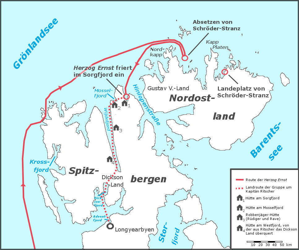 Presumed route of "Deutsche Arktische Expedtion" (German Arctic Expedition), also called "Schroeder-Stranz-Expedition", of 1912. It is based on the article "Harakiri im Nordmeer" in magazine "Der Spiegel", edition 14/2008, the German wikipedia article "Deutsche Arktische Expedtion" and various maps of the Svalbard region.